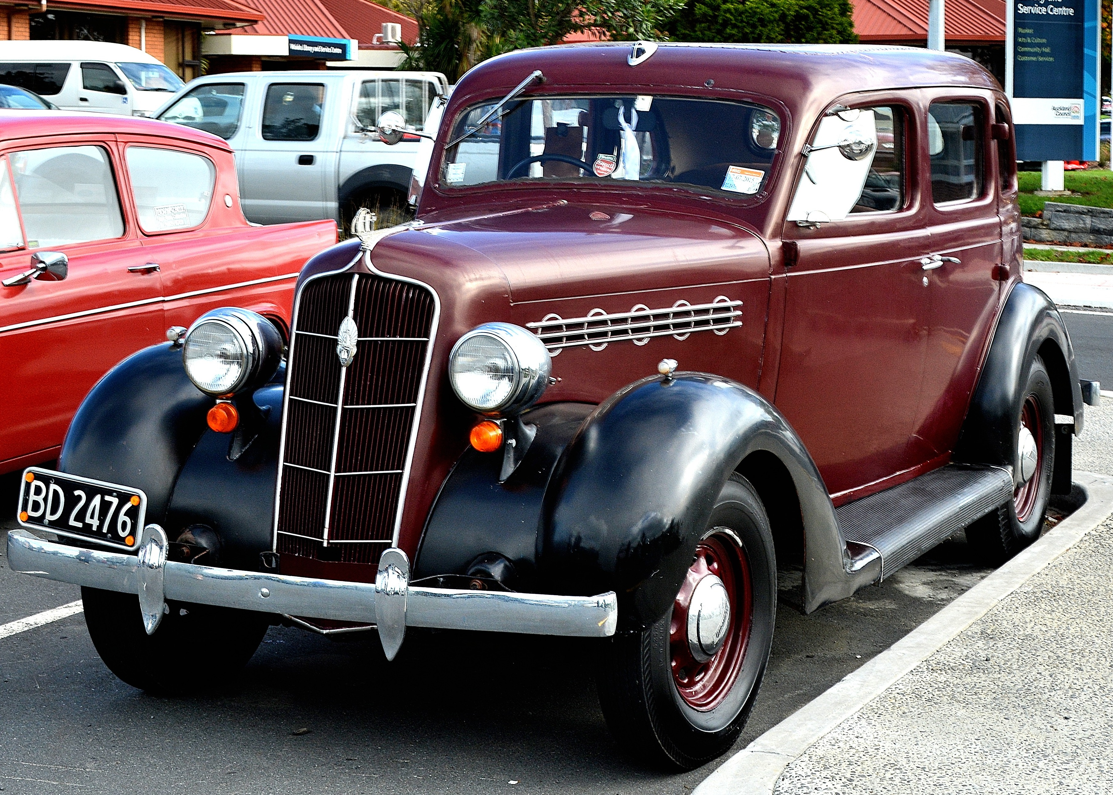 1935 Plymonth